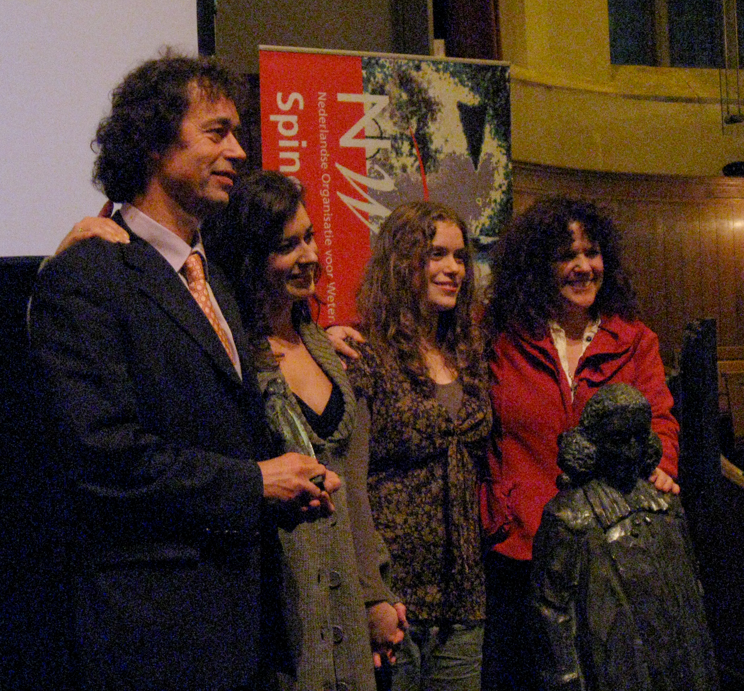 Theo Rasing accepts his Spinoza Award with his wife & daughters.